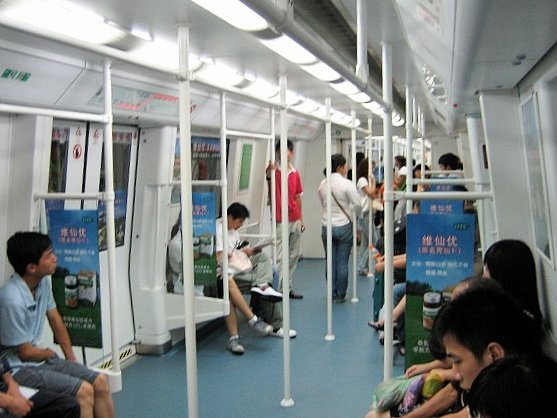 I (Kevin Kolasa) took this photo. Details in Metadata.